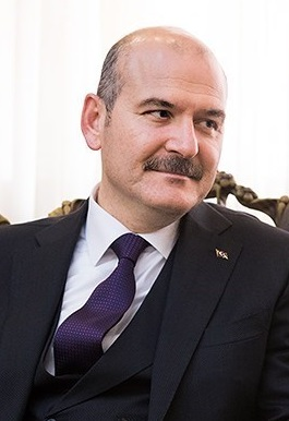 Süleyman Soylu, Turkish Interior Minister